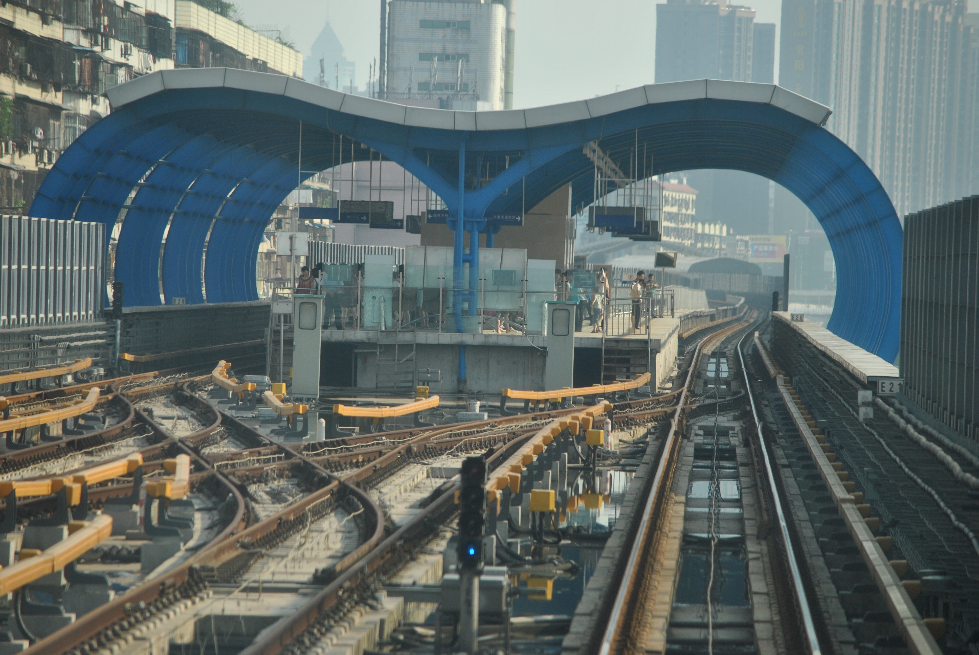 A photo of Wuhan Metro Line 1 Erqilu Station